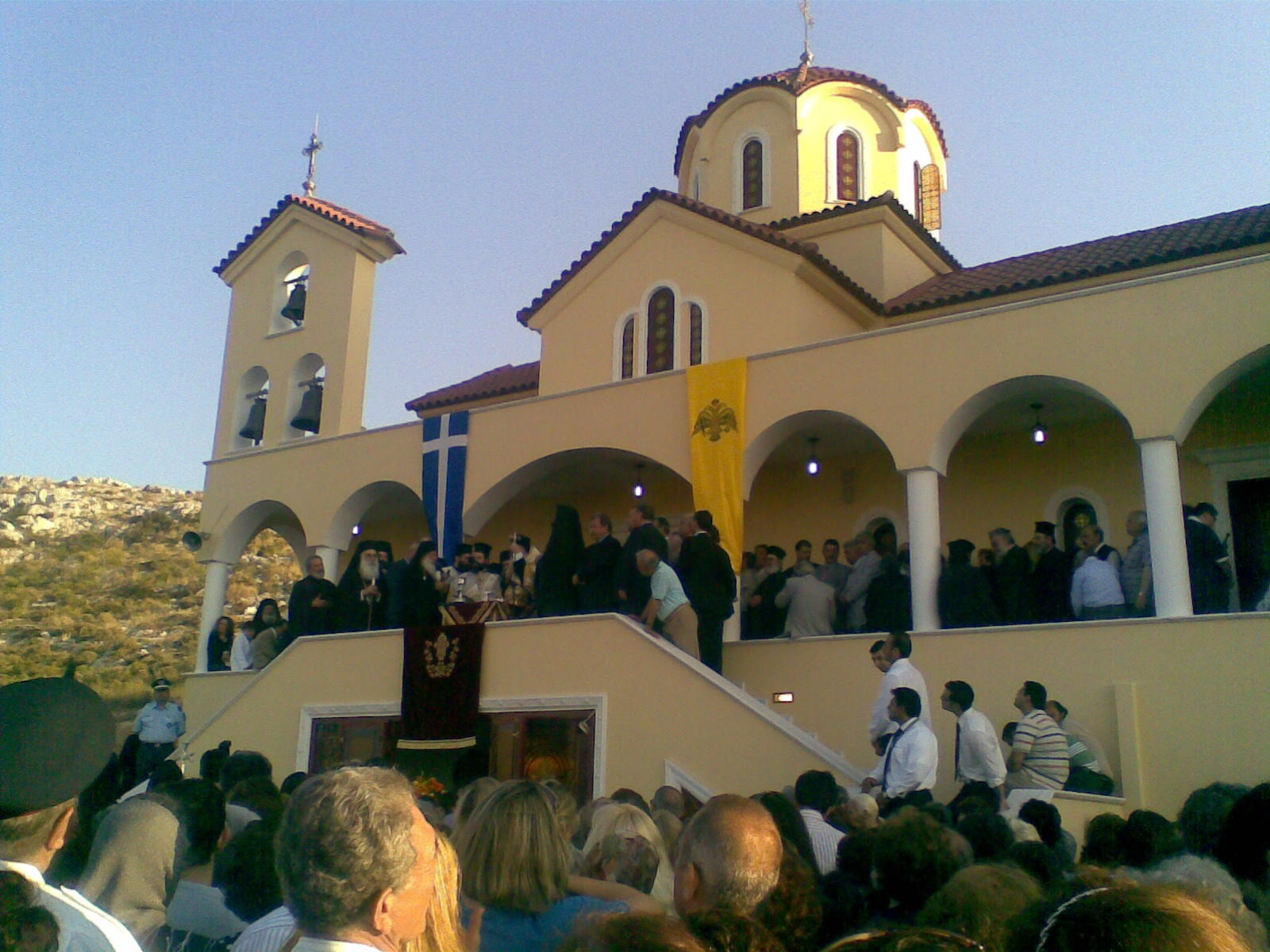 Consecration of the Monastery of Holy Fathers in Perama Attica, Greece